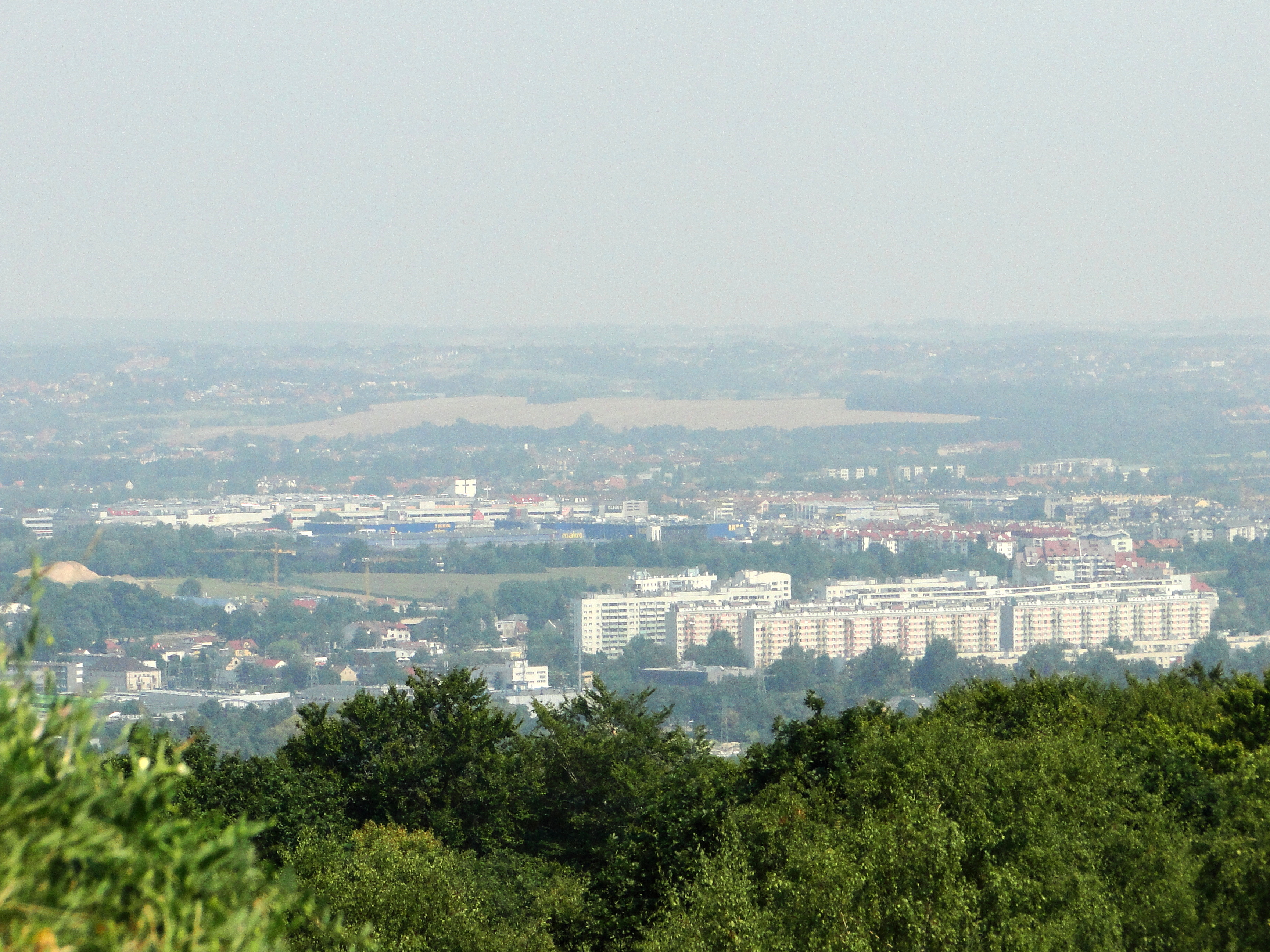 Bronowice.